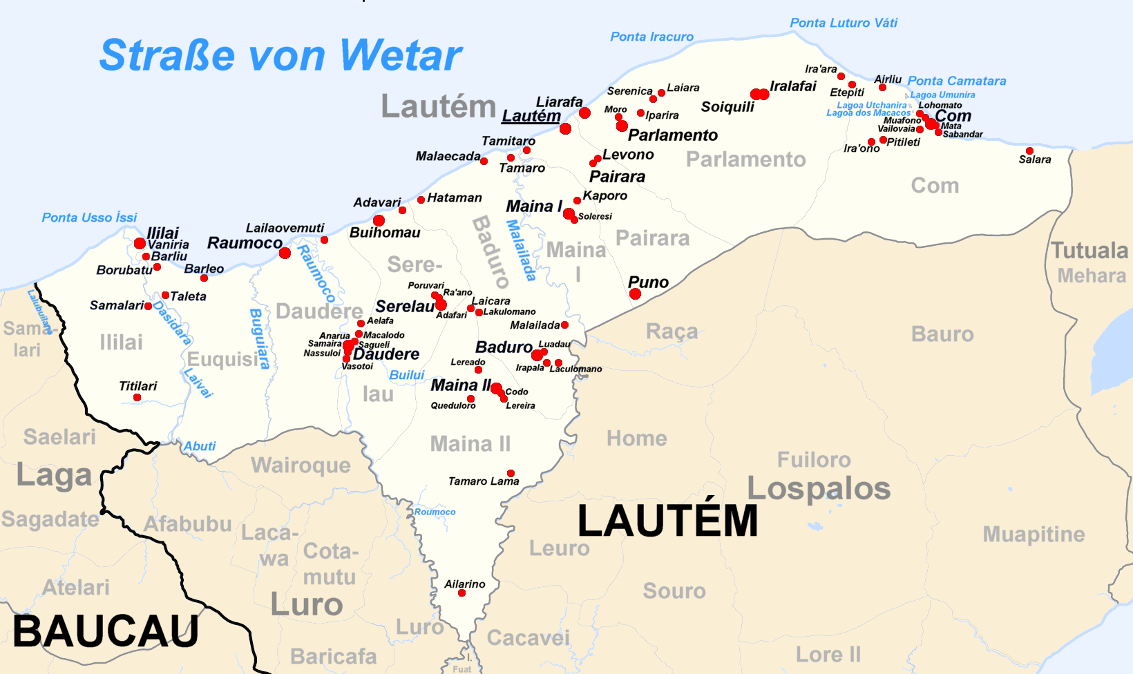 Map of subdistrict of Lautém, district Lautém, Timor-Leste